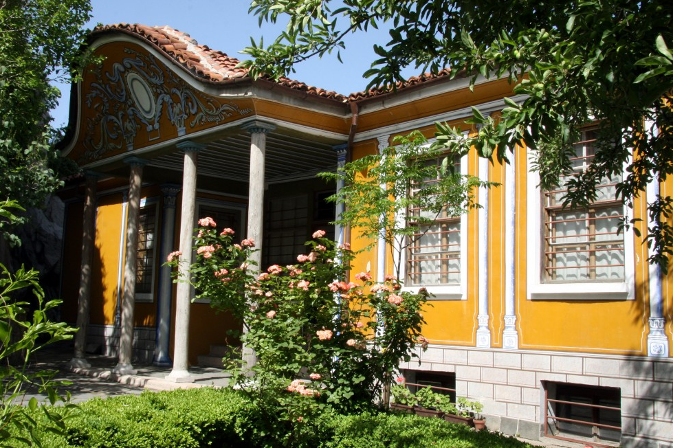 Danov